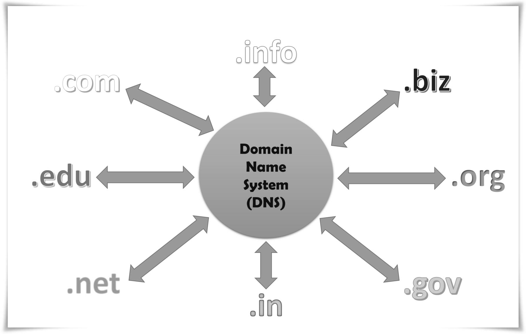 डोमेन नेम सिस्टीम -DNS (Domain Name System)